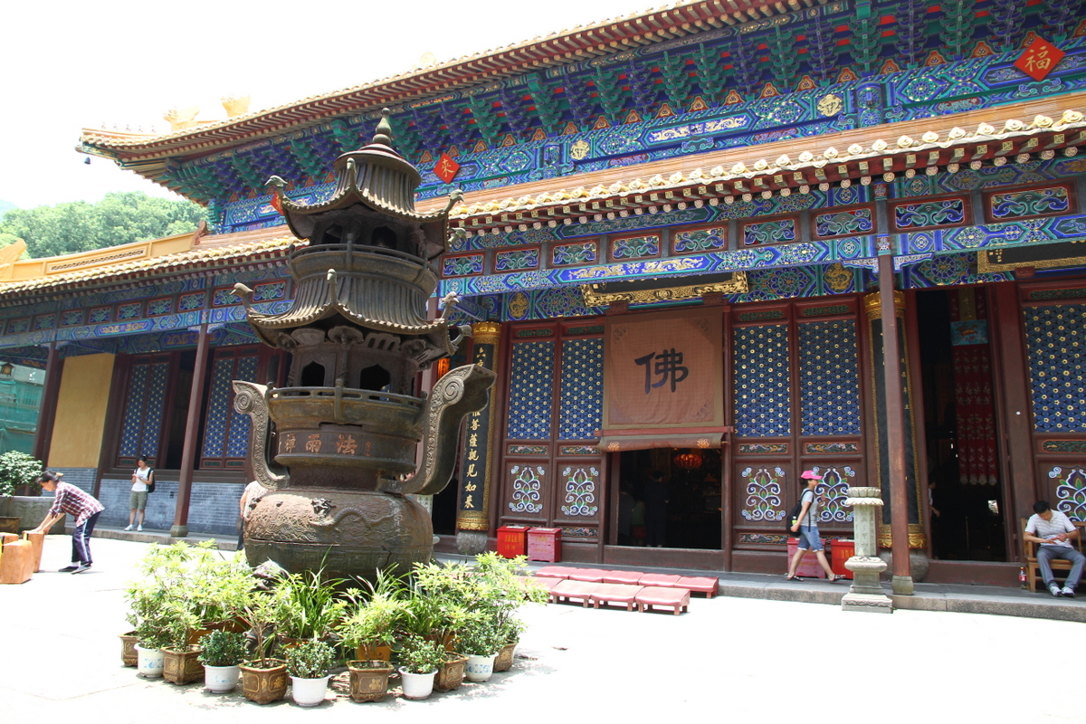 Inside Fayu Temple on Putuo Shan island in China